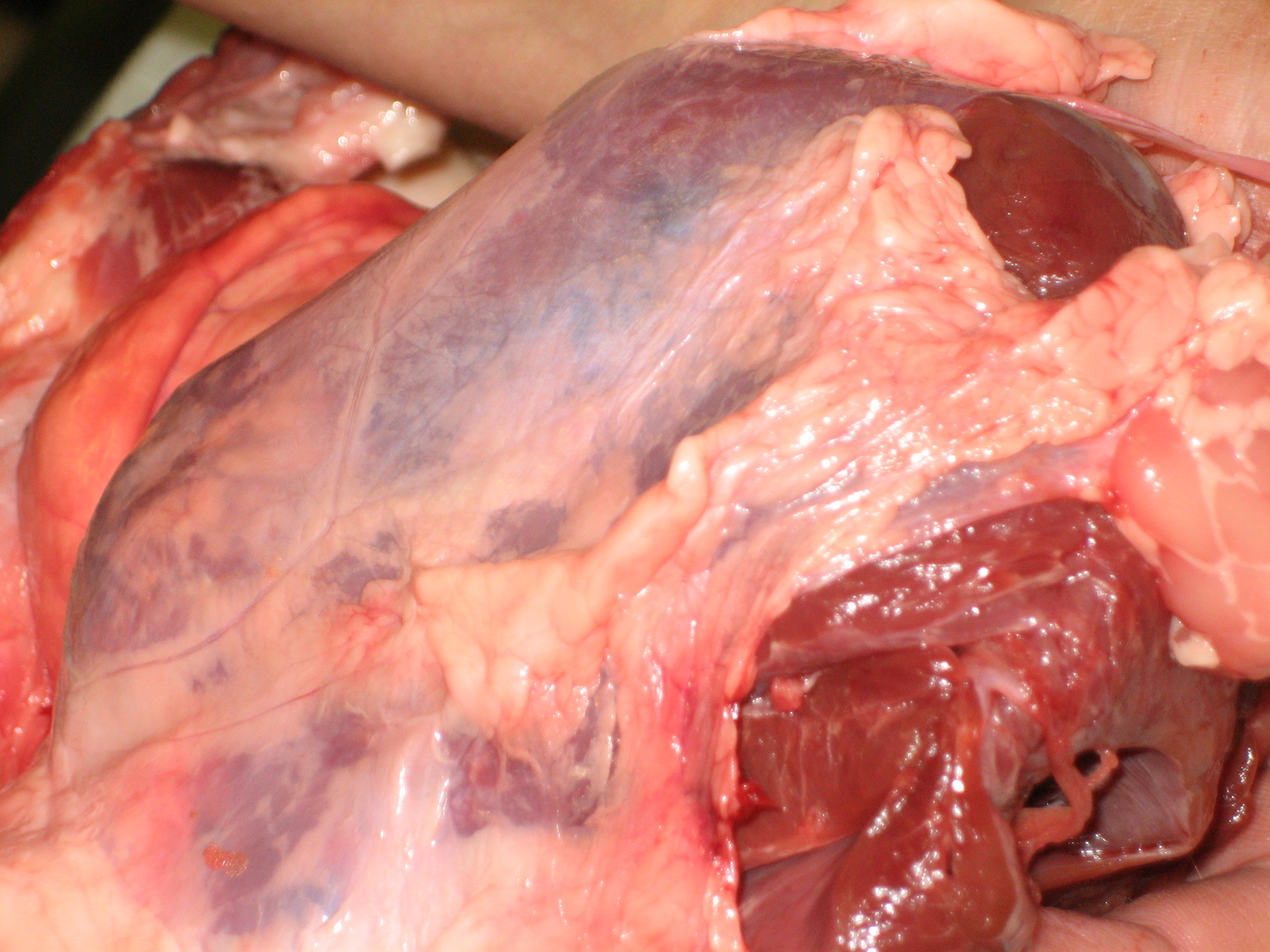 Pericardium surrounding the heart of a pig (Sus scrofa domestica)